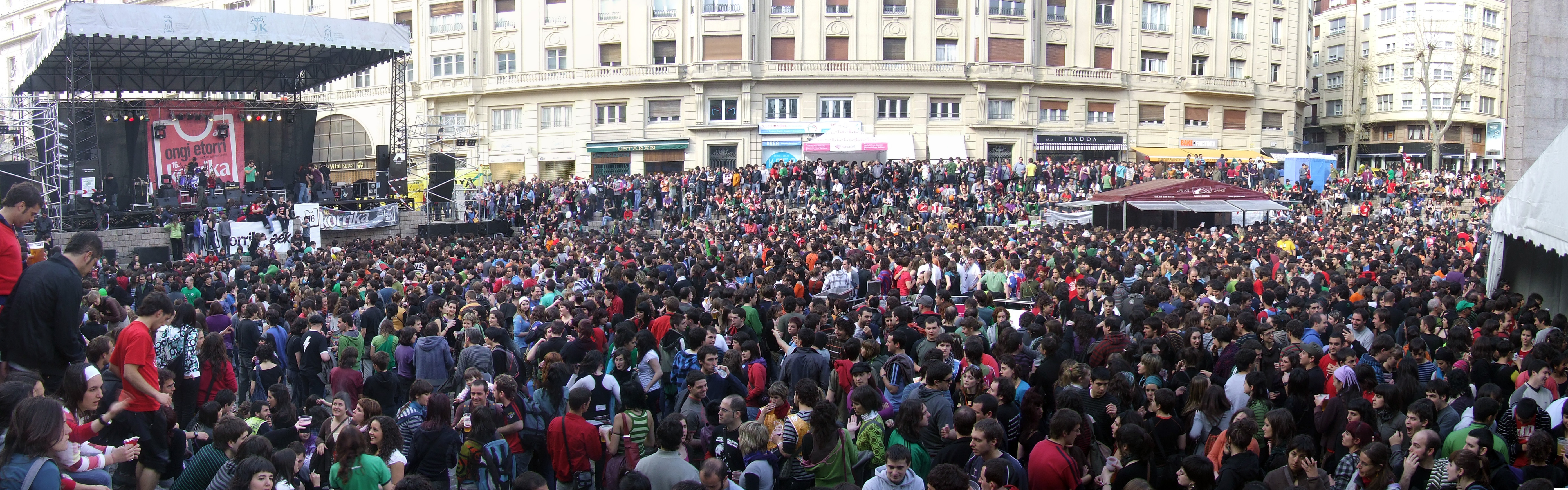 Final festival of the pro-Basque language 2.500 kilometres long race Korrika. 16th edition.